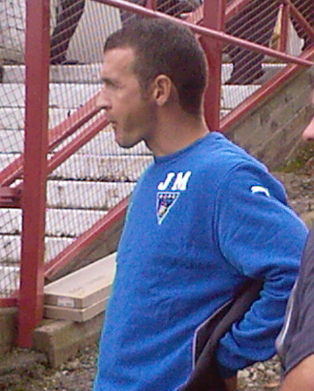 Picture of Dunfermline manager Jim McIntyre